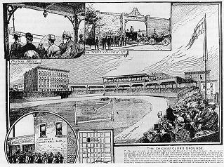 The first West Side Park when it was new. Small-scale copy from the book Diamonds, by Michael Gershman, 1993, p.31.